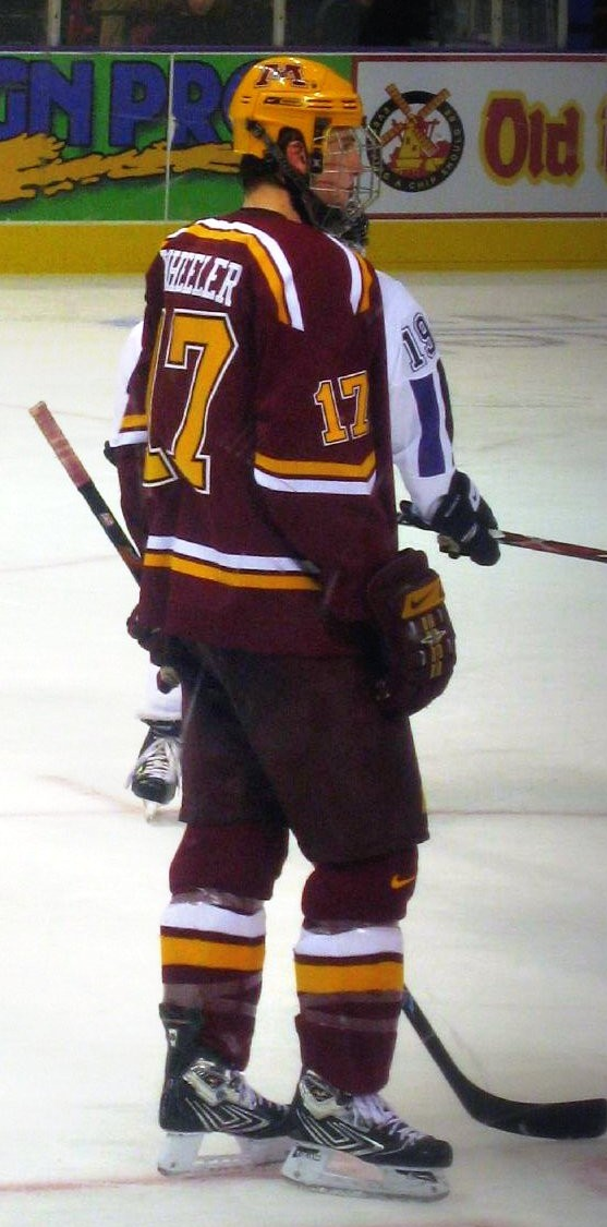 Blake Wheeler, College ice hockey player of the Golden Gophers